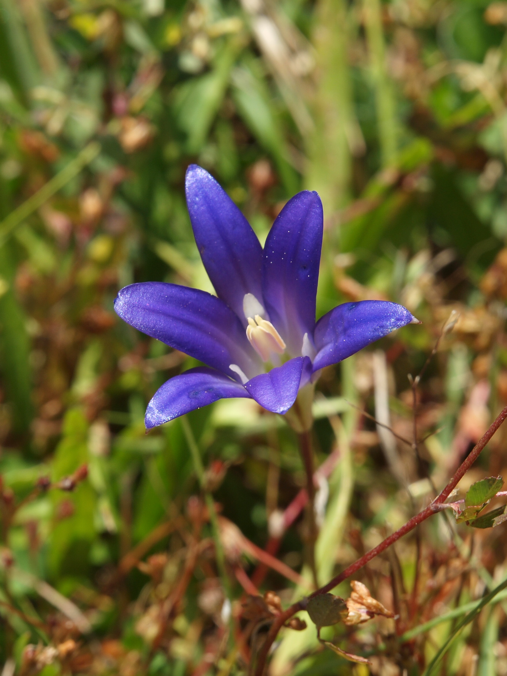 Harvest brodiaea (Brodiaea elegans) Bolinas Lagoon Stinson Beach, CA